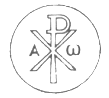 X and P are the first two letters of Christ from greek Χριστός; this is a very old symbol of christians